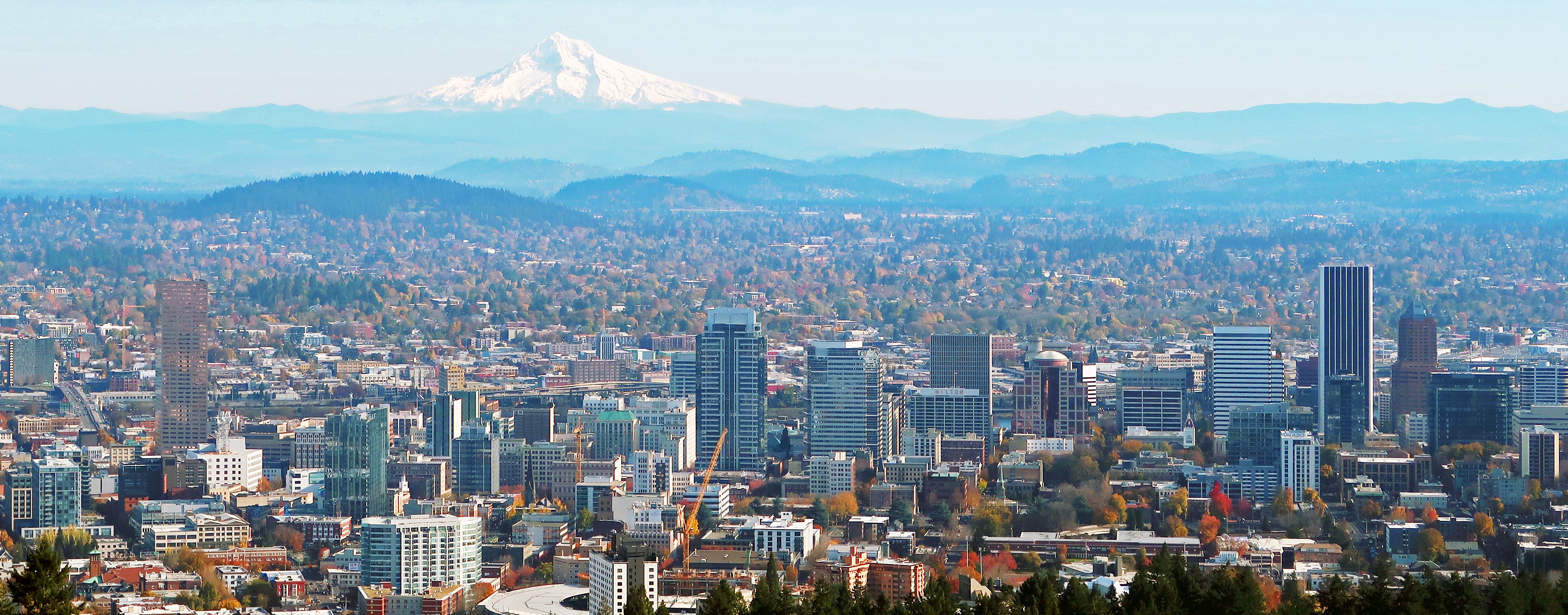 The skyline of downtown Portland and Mt. Hood as seen from Pittock Mansion.